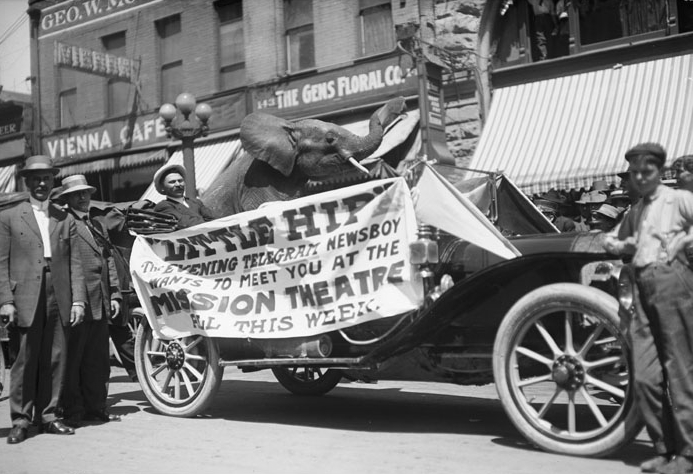 Little Hip the elephant, publicity stunt, photo advertising newspaper & theater, SLC 1910